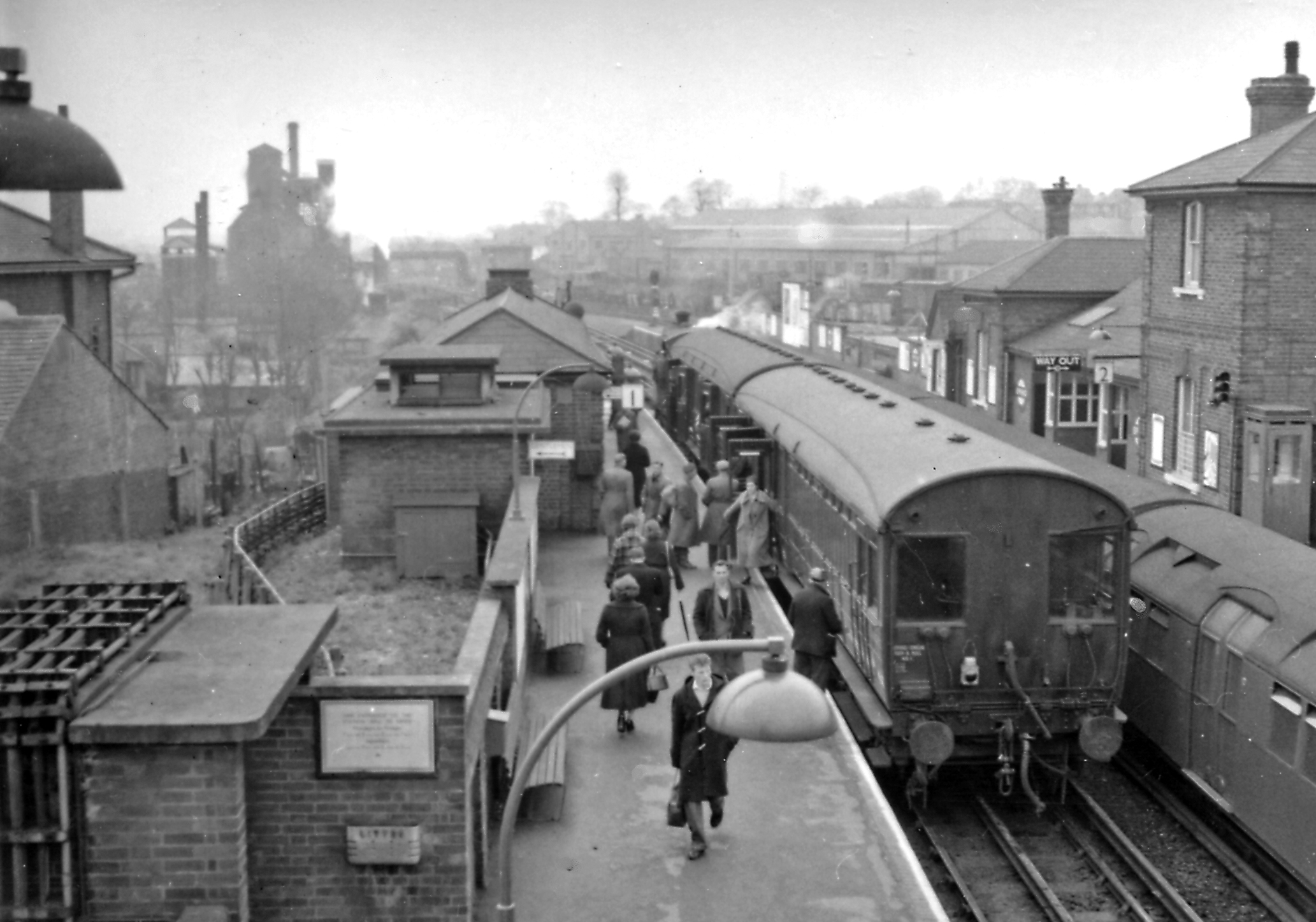 Epping Station, with Ongar auto-train and LT Central Line train. View SW, towards Loughton, Stratford and London on the ex-GER suburban line from Liverpool Street, continuing on to Ongar. From 26/9/49 LPTB Central Line terminated here, from Ealing Broadway/West Ruislip. The service on to Ongar then continued as a steam shuttle until 11/57, when it was electrified, but ceased on 30/9/94.